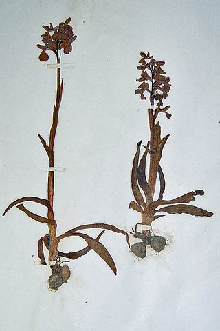 Orchis morio (Green-winged Orchid) Specimen in Derby Museum herbarium. This specimen was collected by 1857 by Joseph Whittaker, an important Derbyshire botanist who lived at Breadsall near Derby. You would not be able to find it growing there today. Note how the entire plant was uprooted - something we would not condone today. Ref No 288-1894 Linked from